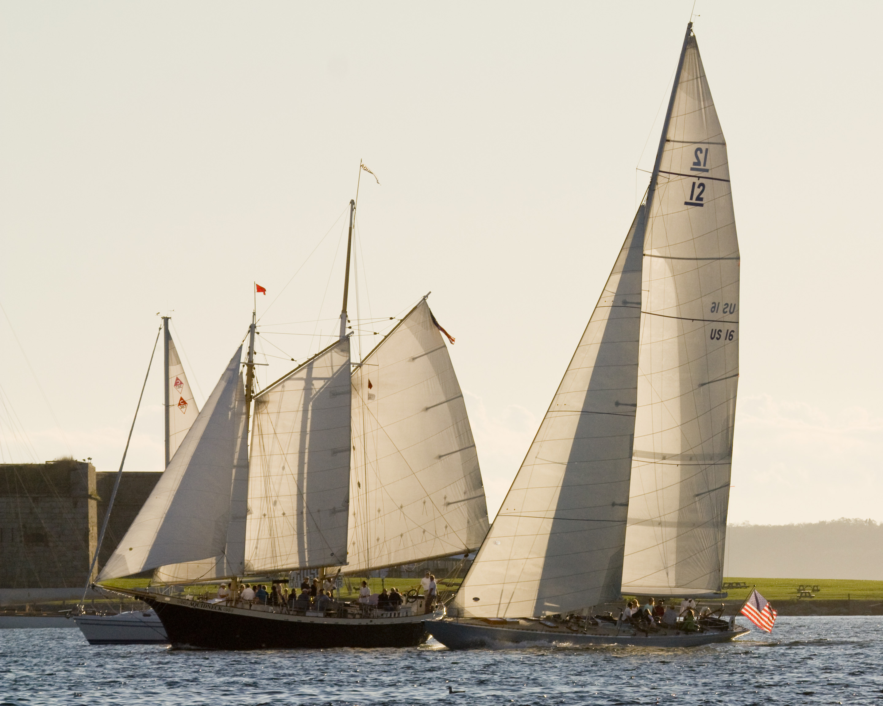 12 meter US 16 America's Cup yacht Columbia, 80 foot Schooner Aquidneck, and another sailboat.